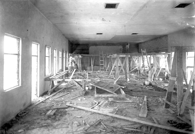 Construction of a movie theater in Afula at the Feingold House